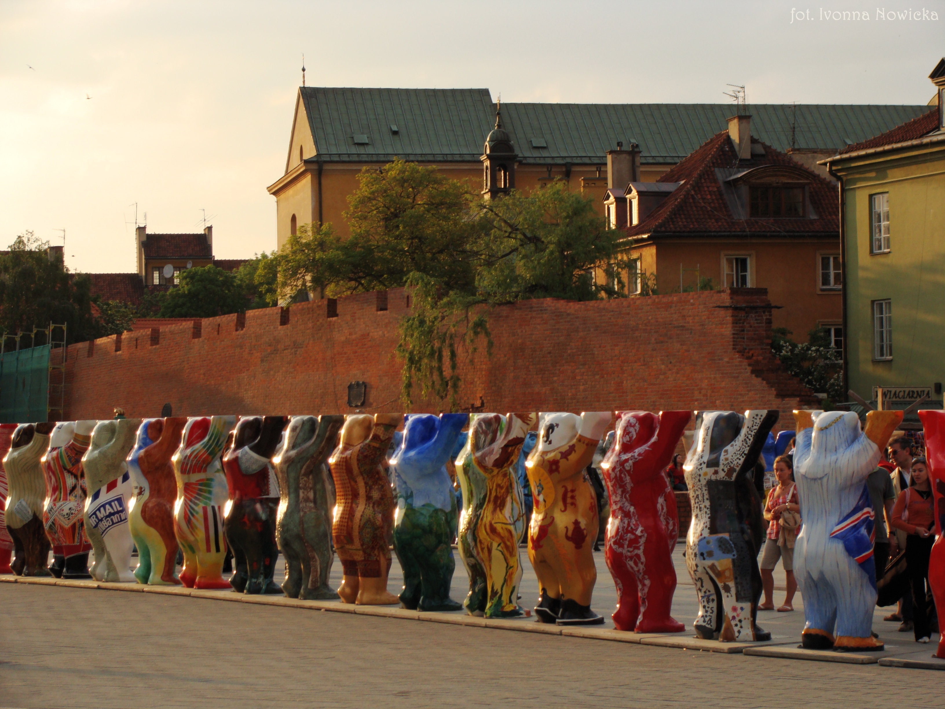 Buddy Bears in front of old city walls, Warsaw